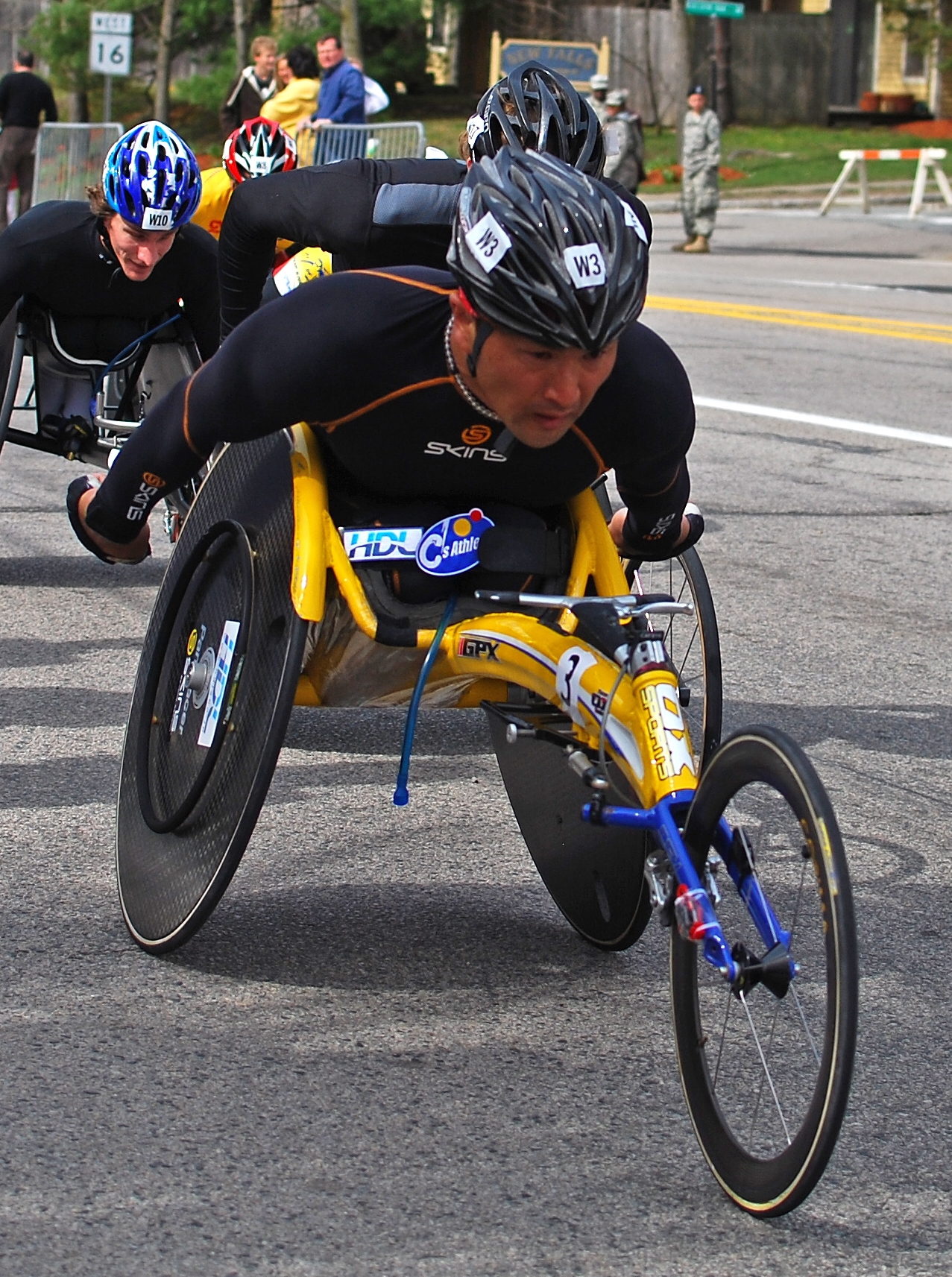 Masazumi Soejima of Japan in the 2009 Boston Marathon, at the halfway point coming up to the intersection of Route 16 and 128.